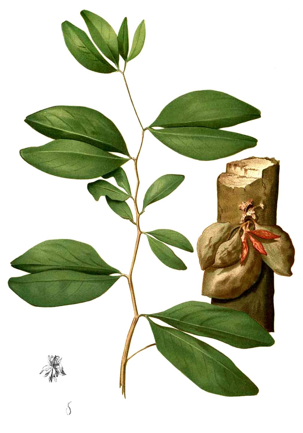 Plate from book